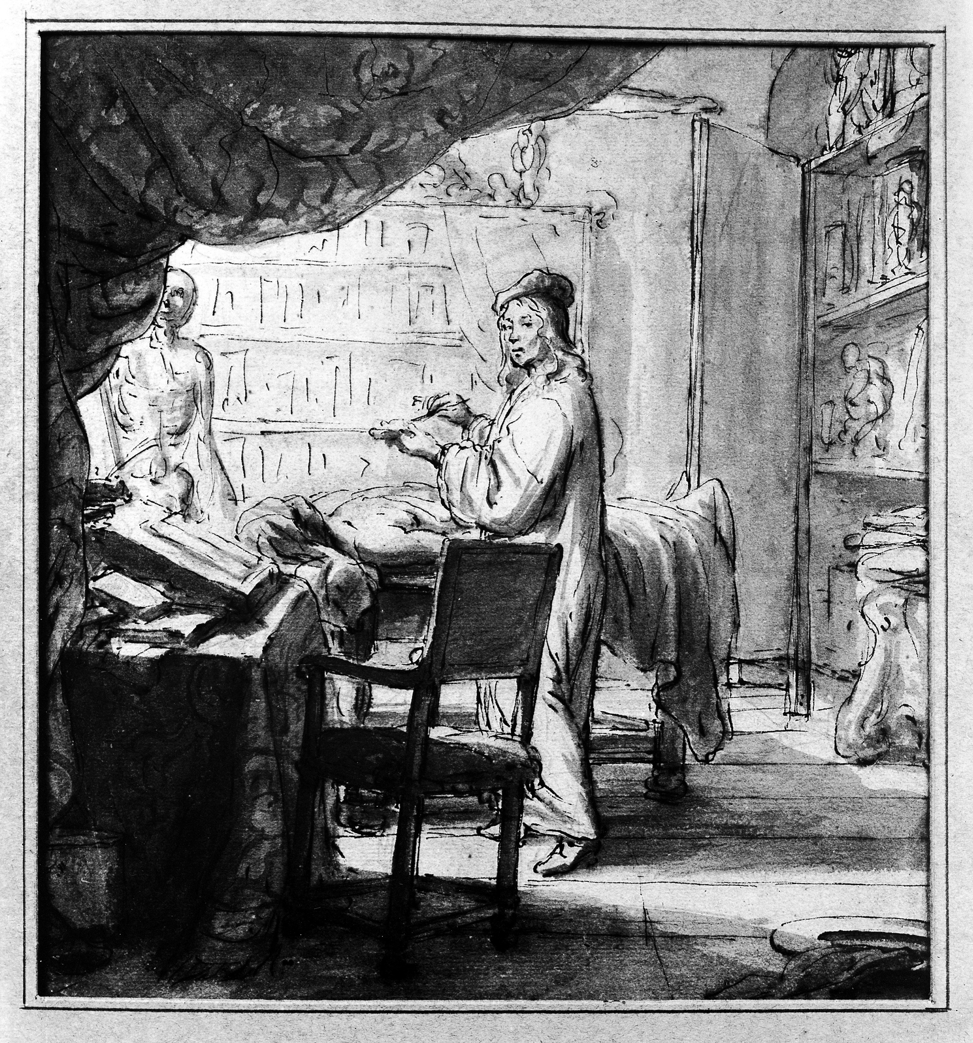 The anatomist Wellcome Images Keywords: Anatomy; S. Van Hoogstraten